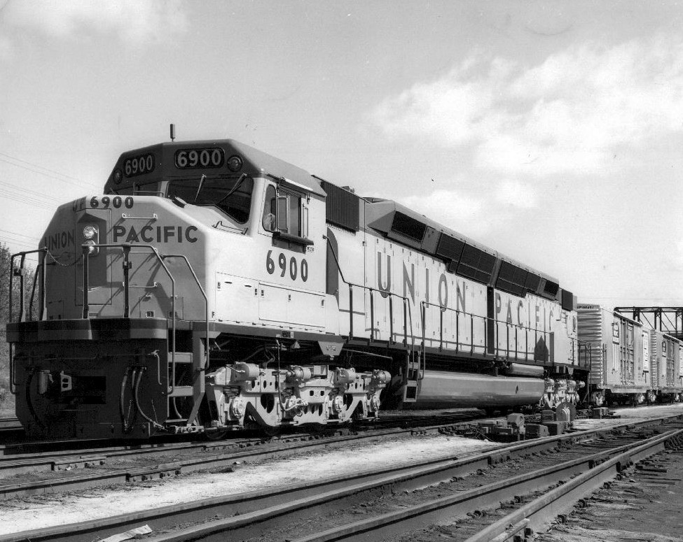 Photo of Union Pacific EMD DDA40X locomotive 6900 on its way from Kansas City to Denver for the celebration of the Golden Spike Centennial in 1969.